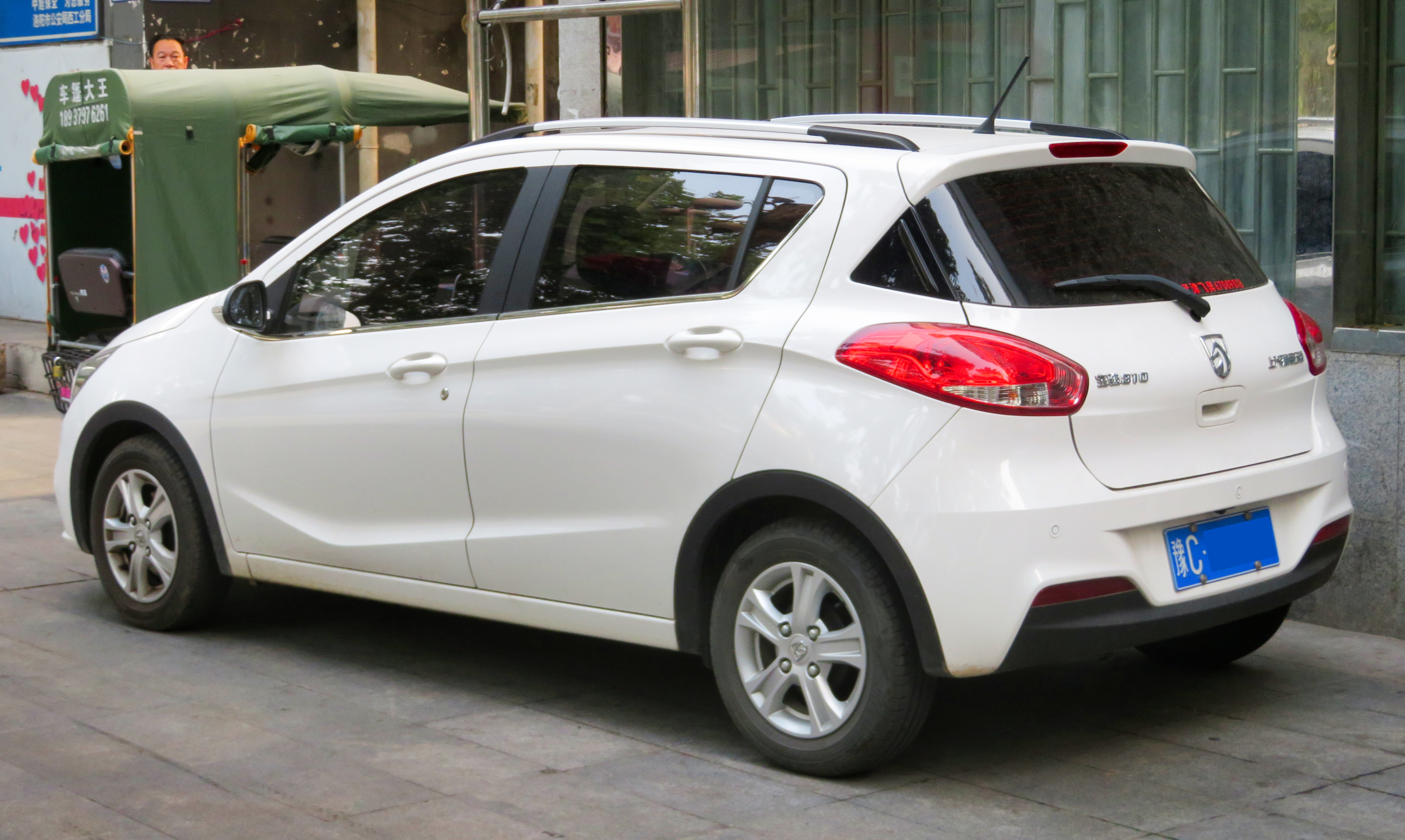 A 2016 Baojun 310 hatchback photographed in Luoyang, Henan province, China